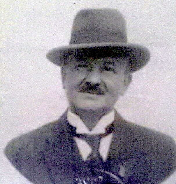 Karel Sellner